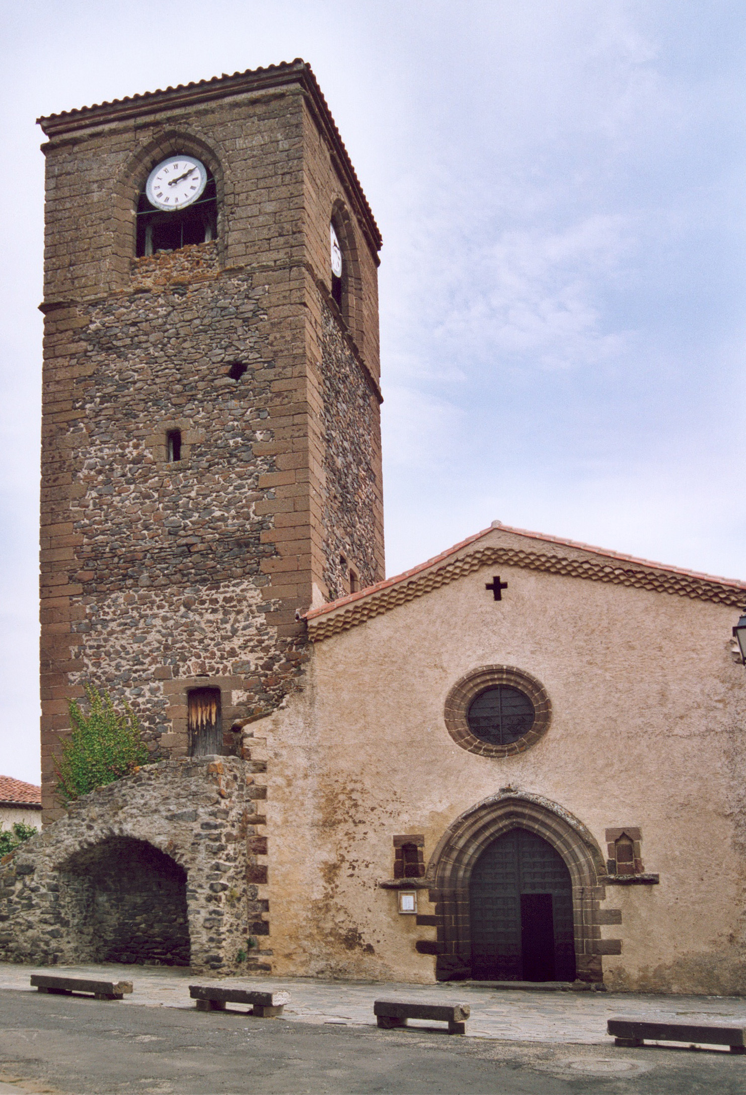 Church of Chilhac , Haute-Loire, France